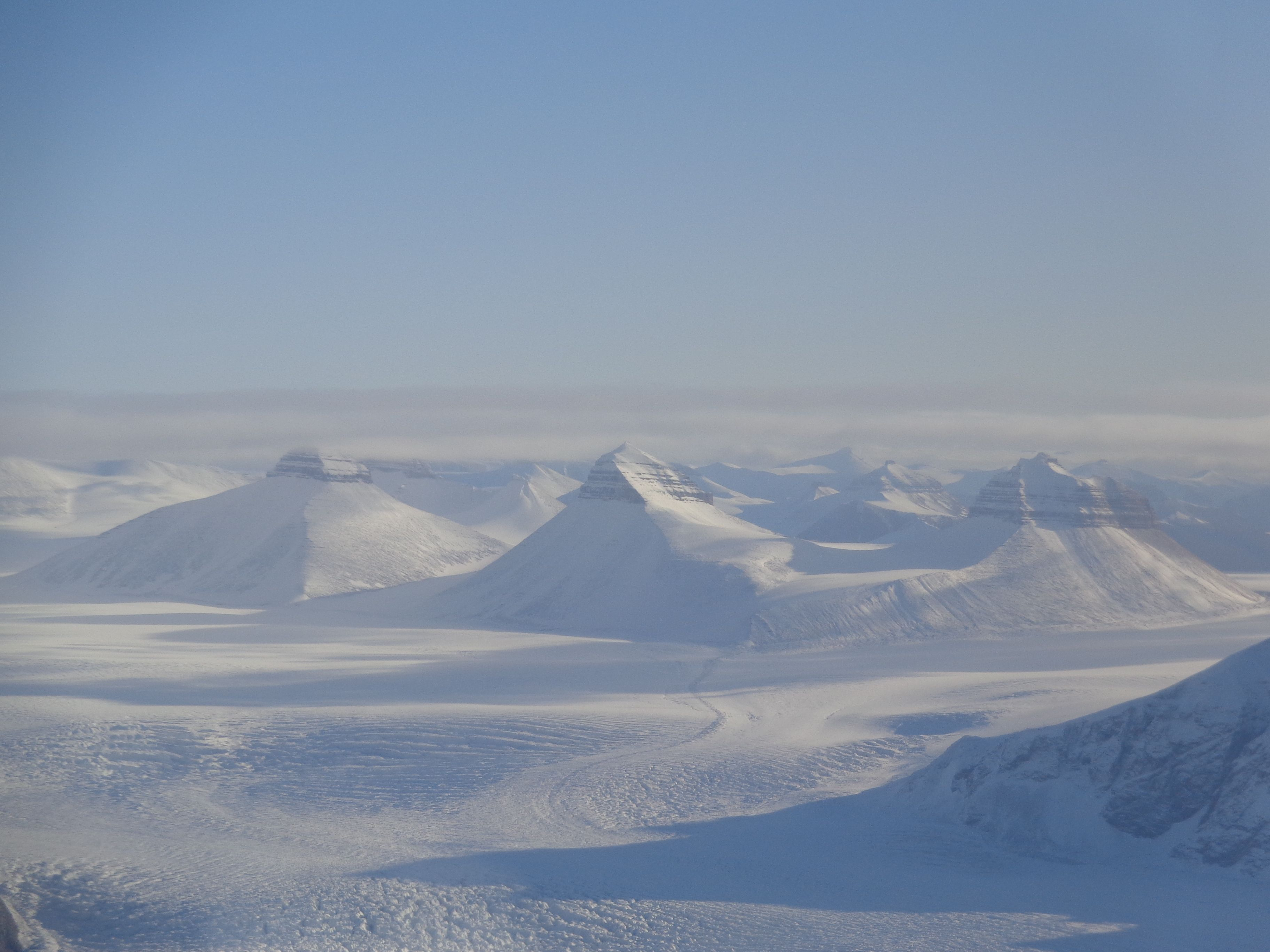 Tre Kronor, Svalbard